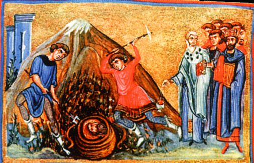 3d finding of John the Baptist's head